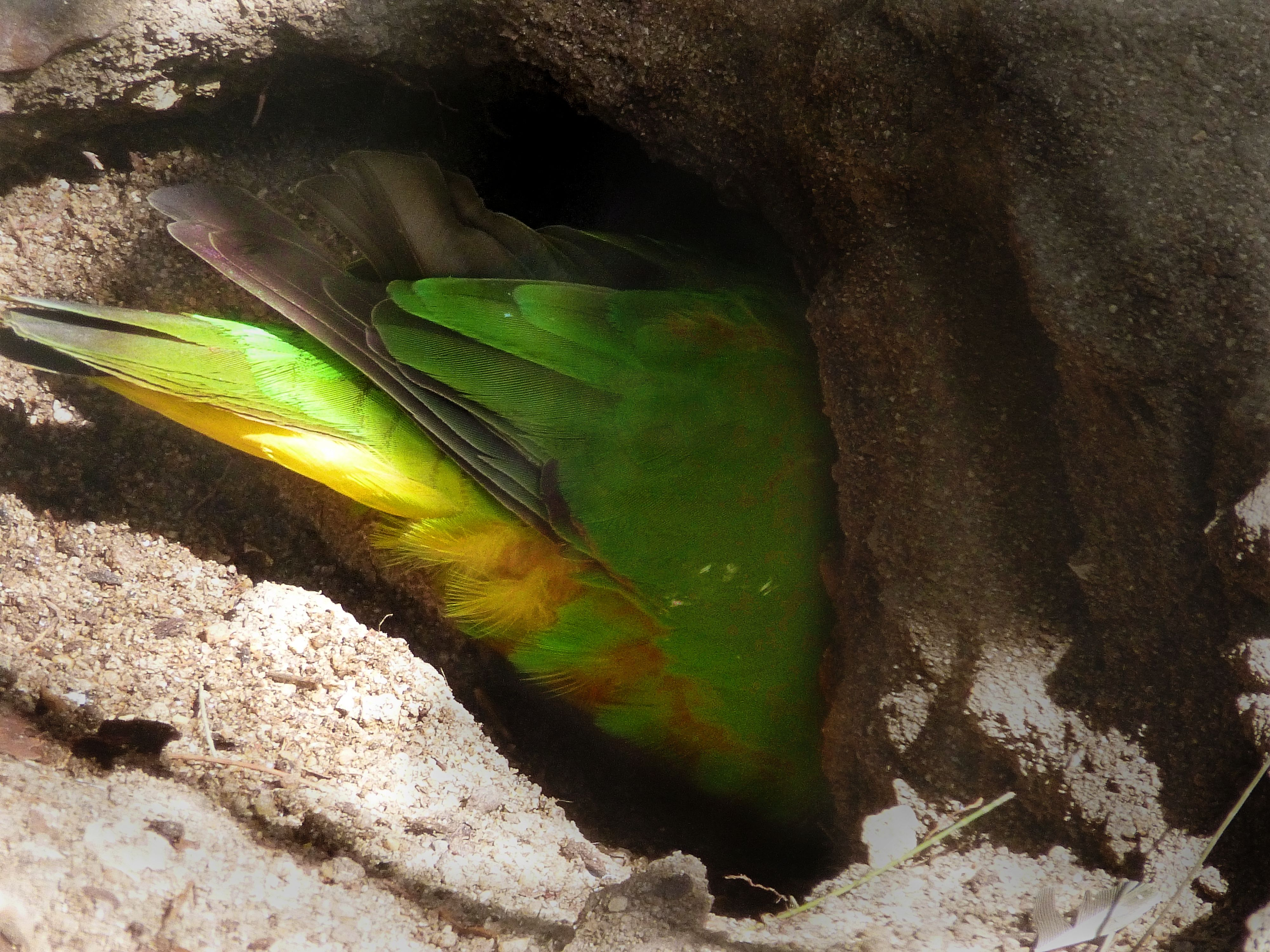 Poicephalus senegalus making a hole into the soil. Lisbon Zoo. Portugal.